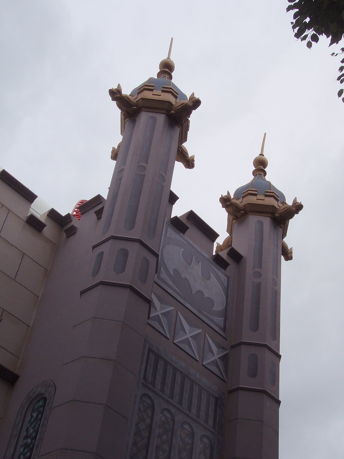 Riders of Batman Adventure: The Ride enter the library of Wayne Manor. This ride is located at Warner Bros. Movie World.